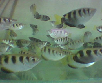 A shoal of Toxotes jaculatrix, archerfish being sold in a pet store at the Cartimar Shopping Center in the Philippines. Individual fishes can fetch no more than 50php (US$1) a piece in places such as this.